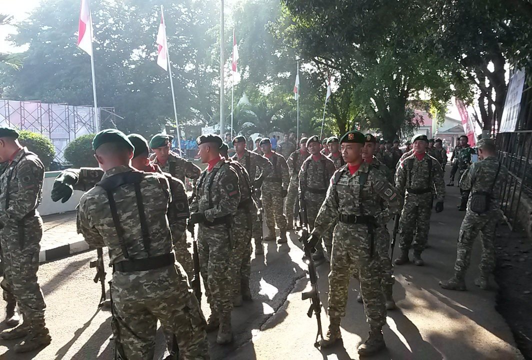 kostrad soldiers of the indonesian army